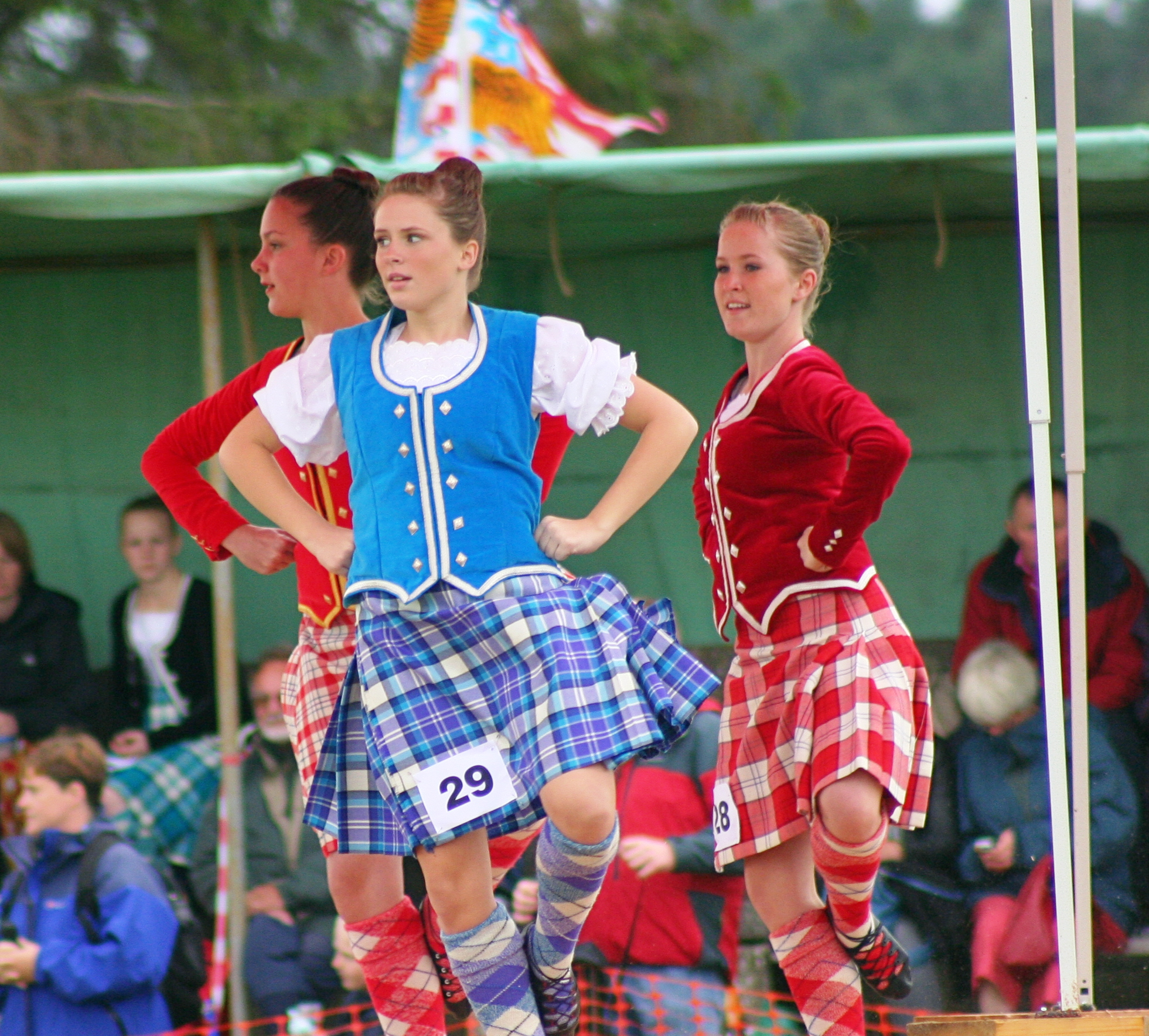 For those of you not familiar with Highland Games, the easiest way to describe them is that the day is like a mixture of a village fete, school sports day and the Olympics. There are track and field events for all ages, cycle races, dancing competitions, piping competitions, a fun fair, food outlets and a beer tent. Competitions are both 'local' and 'open', with competitors coming from all over the world. There were entrants in Dornoch from as far afield as the USA, Australia and New Zealand.